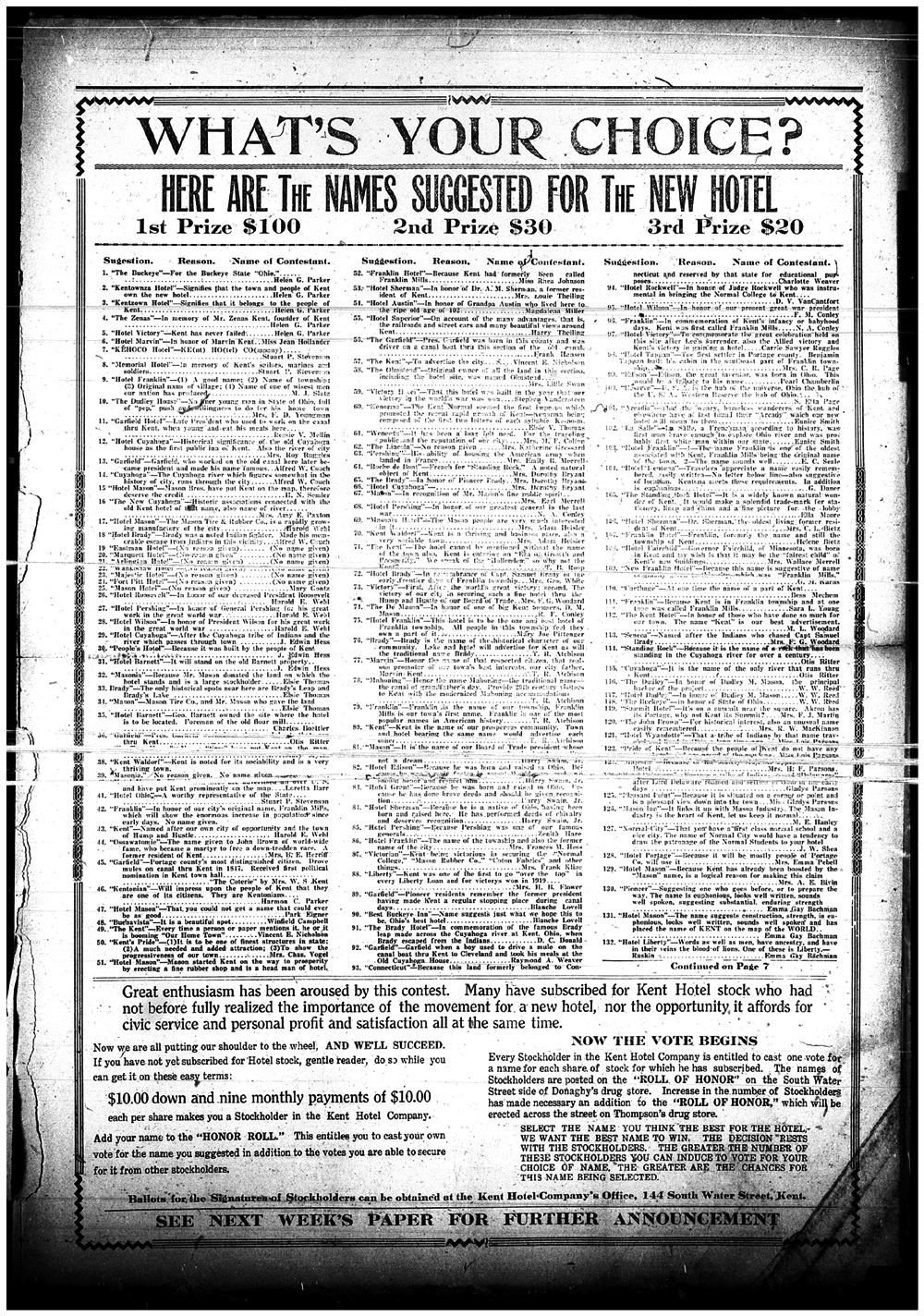 Newspaper page from a 1919 edition of the Kent Courier with many of the name suggestions for what would eventually be named the Franklin Hotel in Kent, Ohio, United States.